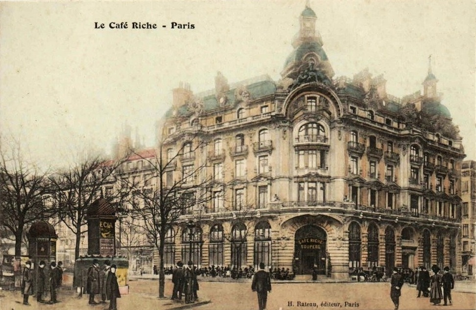 The café Riche on the boulevard des Italiens in Paris (France), circa 1890.